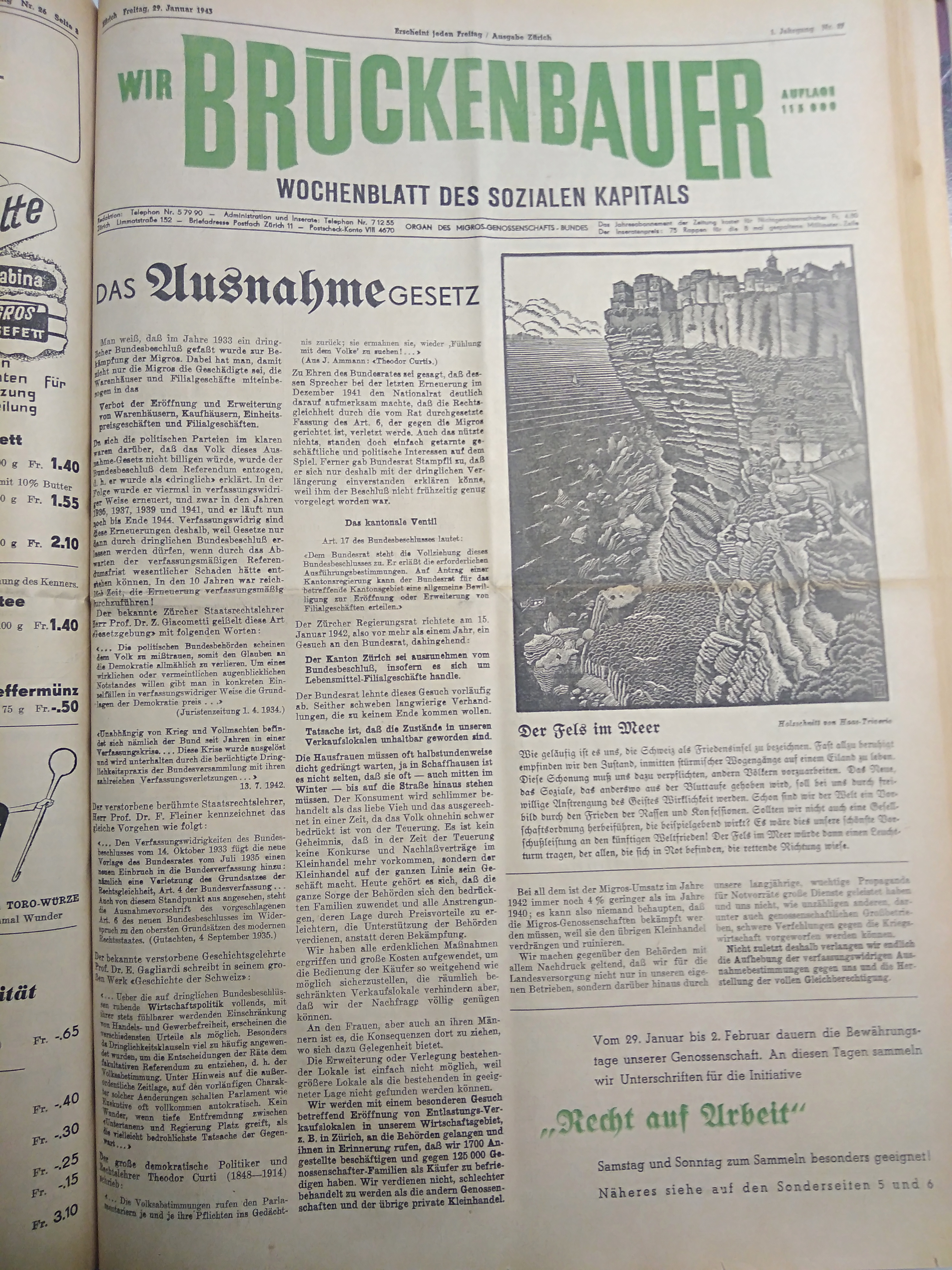 Brückenbauer Zeitschrift Ausschnitt 1944